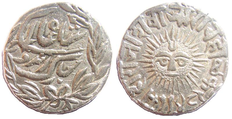 Silver 1 Rupee coin of Shivaji Rao Holkar, VS 1948 (1891)